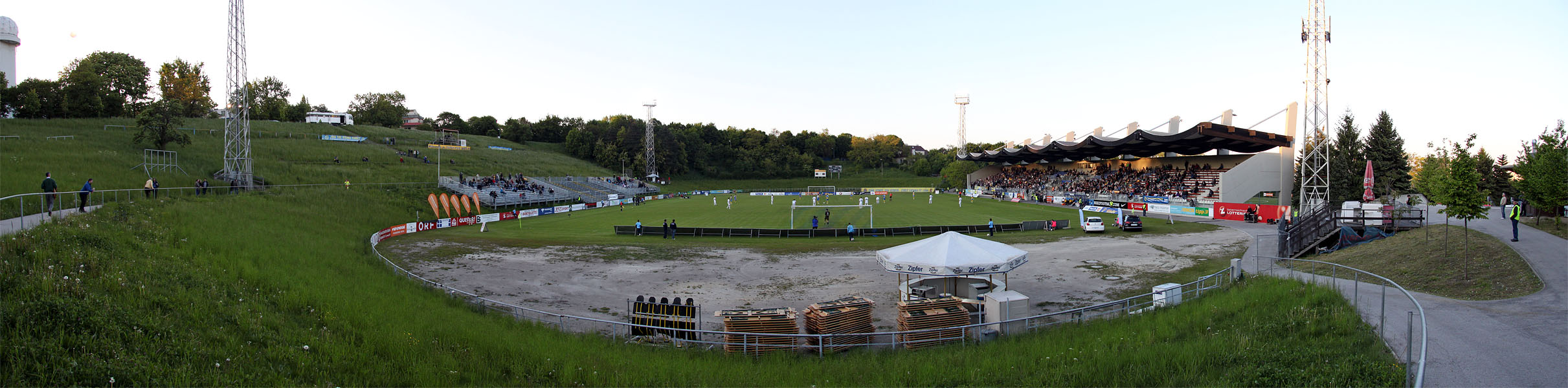 Stadium Hohe Warte in Vienna